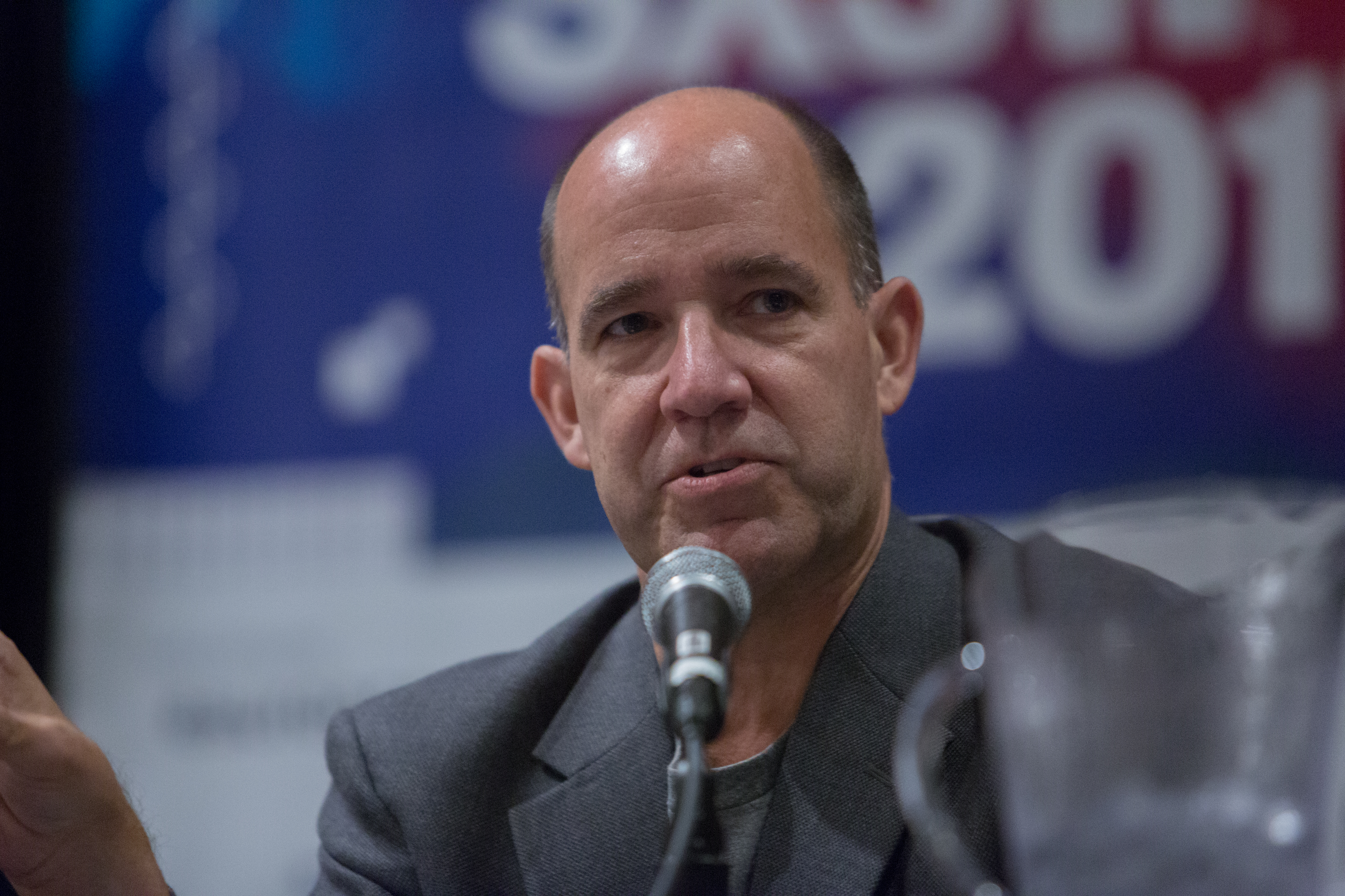 From the session "The War at Home: Trump and the Mainstream Media".